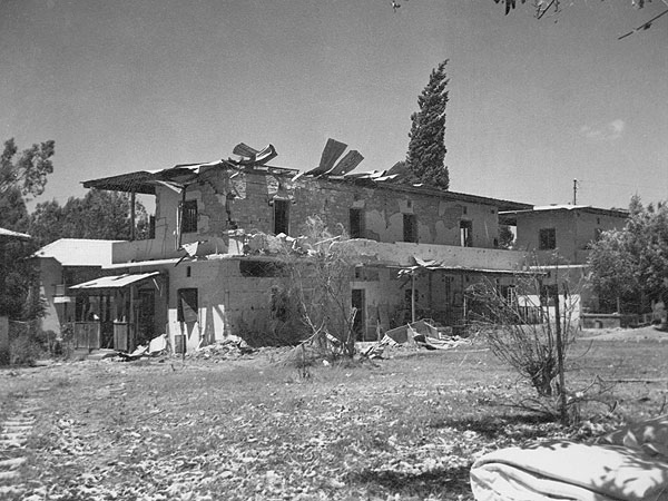 Degania after the battle in the 1948 Arab-Israeli War